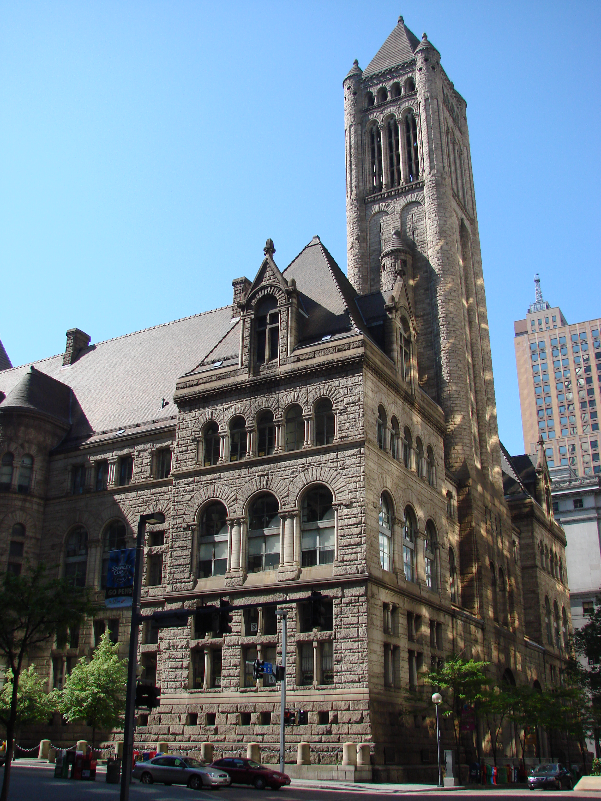 The Allegheny County Courthouse in downtown Pittsburgh, PA, USA.